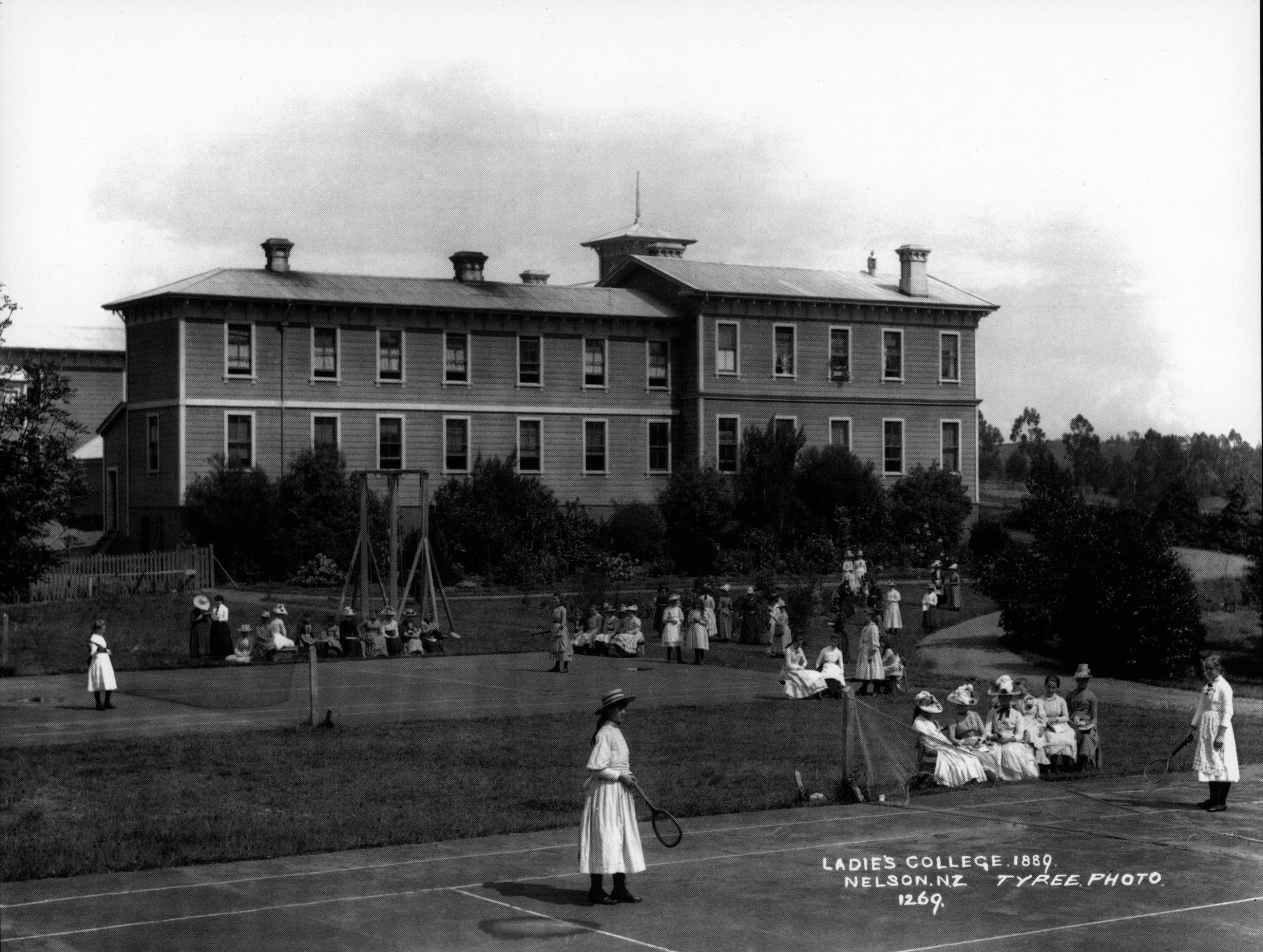 Nelson College for Girls was established in 1883 and was one of the earliest girls’ secondary schools. The first head mistress was Kate Edger who in 1878 became the first woman in the British Empire to be awarded a university degree. Tennis became an acceptable and popular sport for women and girls in the 1880’s. Kathleen Nunneley won the New Zealand ladies singles title thirteen consecutive times between 1895 and 1907 and led the New Zealand women’s team to victory over the Australians in 1909. Original photo is from the Tyree Collection, Nelson Provincial Museum, 181886/3. Archives New Zealand Reference: ABKH 7366 W4437 NF431 Material from Archives New Zealand